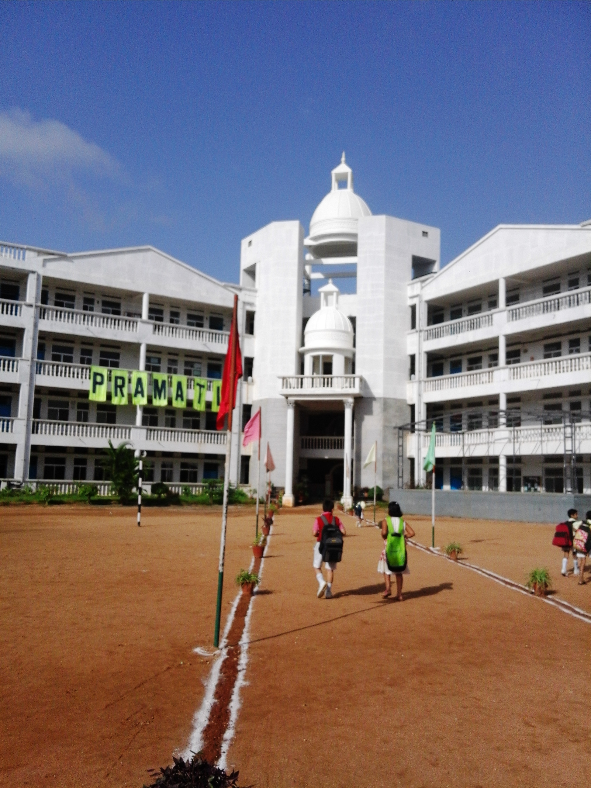 Mysore city, Mysore district, Karnataka province, India.